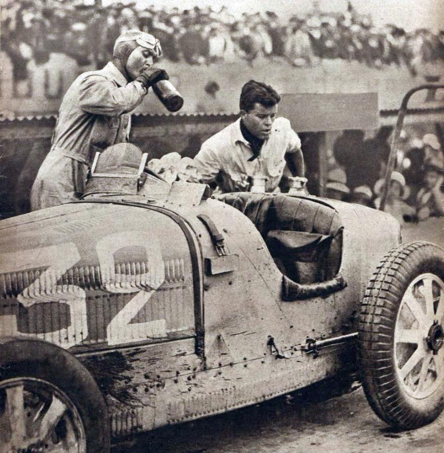 Louis Chiron (with bottle) and his mechanic Wurmser (to the right) in 1931.